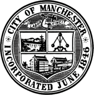 Seal of Manchester, NH. Courtesy of the City of Manchester, NH.